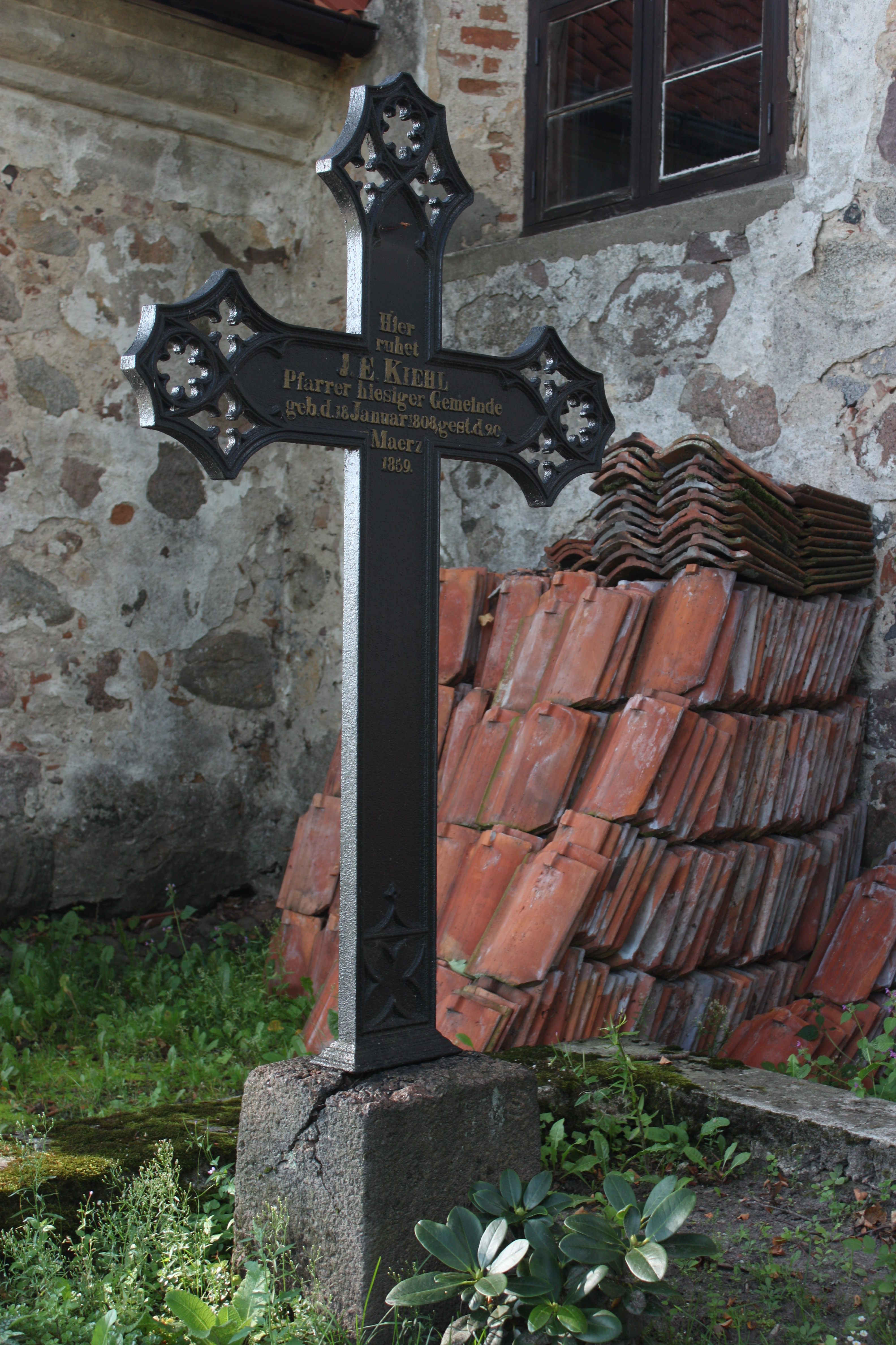 Lutheran church in Dźwierzuty and cemetery nearby.